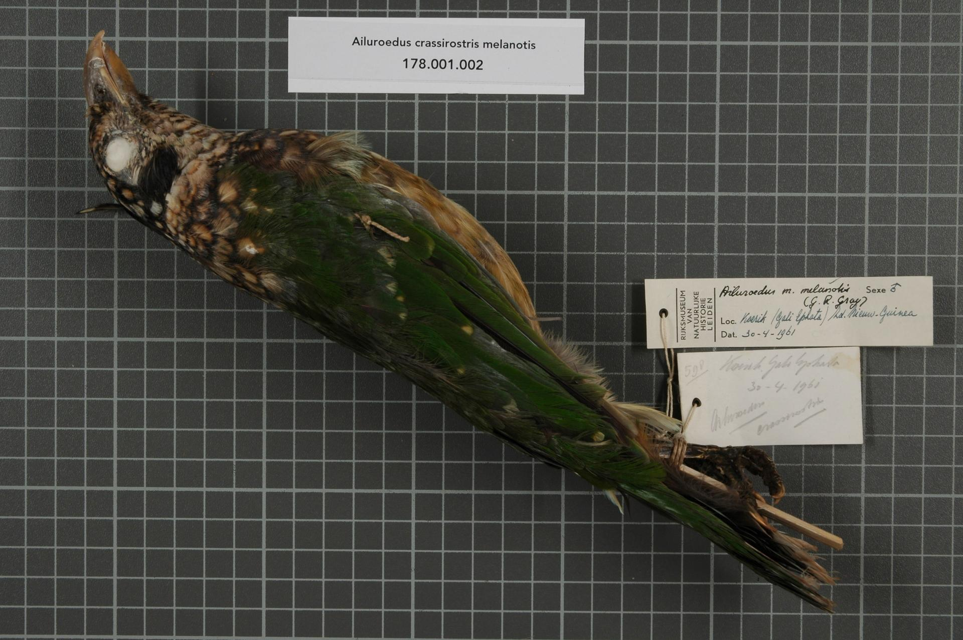 Ailuroedus crassirostris melanotis G.R. Gray, 1858